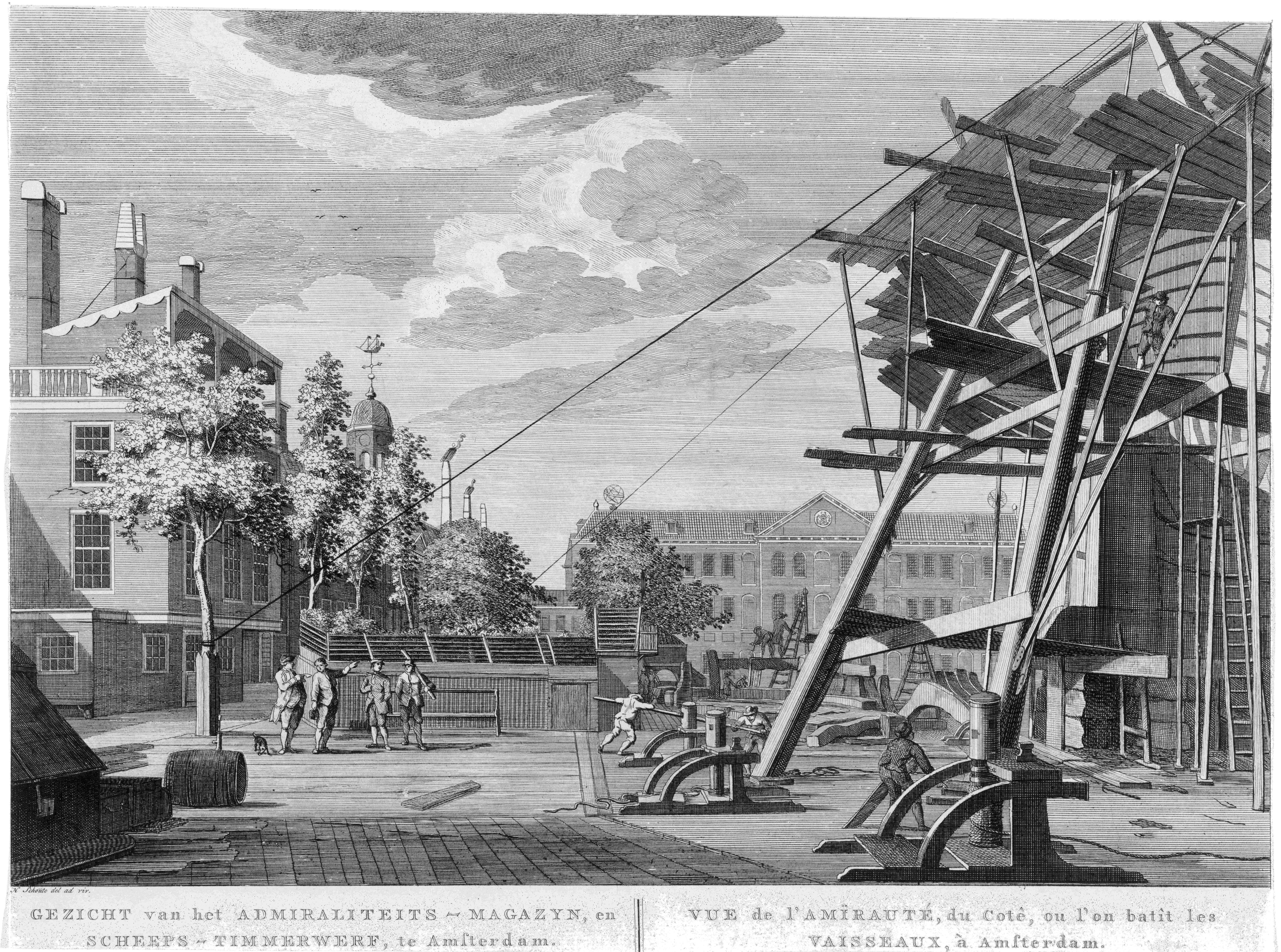 Shipyard at Oostenburg, Amsterdam. By Hermanus Petrus Schouten.